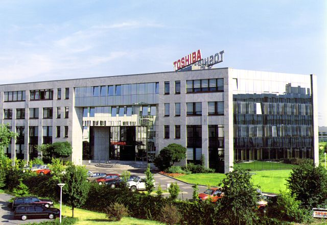 Toshiba Europe GmbH, Neuss, Germany Camera: Canon AE-1 Program Software: Adobe Photoshop